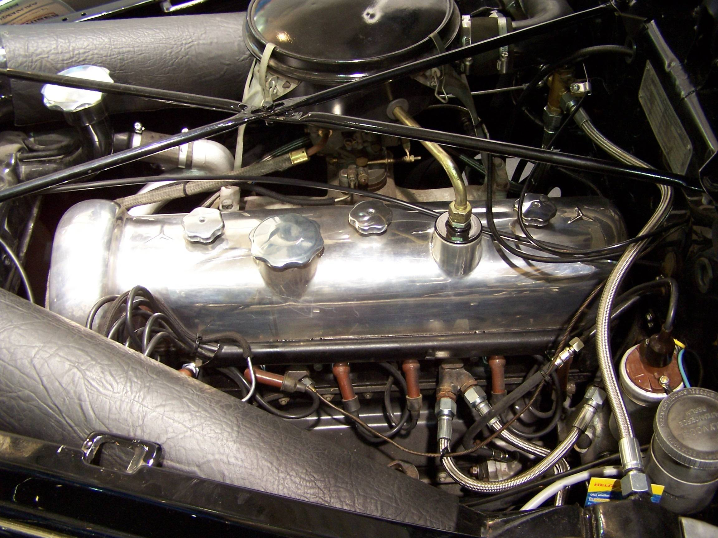 2171cc straight-6 engine from Mercedes 220 W187 (85hp)